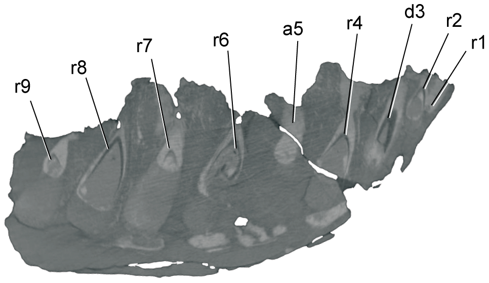 Nanuqsaurus hoglundi, holotype DMNH 21461, CT slice through partial left dentary. Parasagittal CT scan slice through the partial left dentary shows several replacement teeth remaining in alveoli. This slice shows parts of cross-sections through replacement teeth in the first and second alveoli, verifying their identity. Abbreviations: a, alveolus, with number indicating position in tooth row; d3, base of partially erupted third dentary tooth, r, replacement tooth (unerupted), with number indicating position in tooth row.